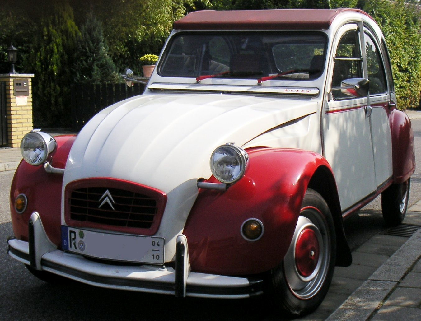 Citroën 2CV, profile.